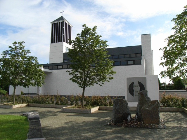 Church of the Assumption, Yellow Furze The memorial is for five local girls who were killed in a schoolbus crash in May 2005.